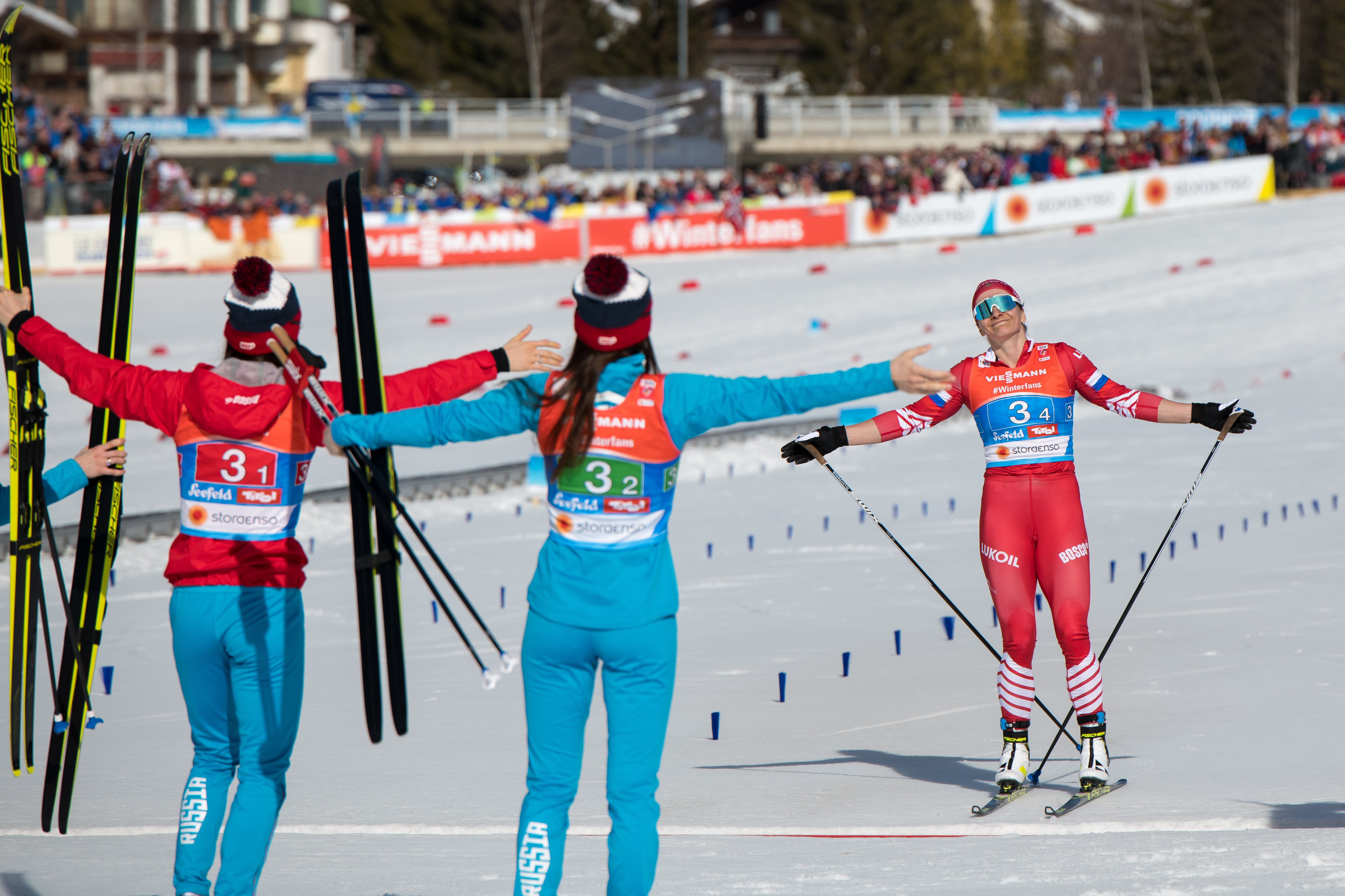 FIS Nordic Wolrd Ski Championships Seefeld 2019 - Ladies 4x5km Relay Classic/Free. Picture shows Yulia Belorukova (RUS), Anastasia Sedova (RUS), Natalia Nepryaeva (RUS).